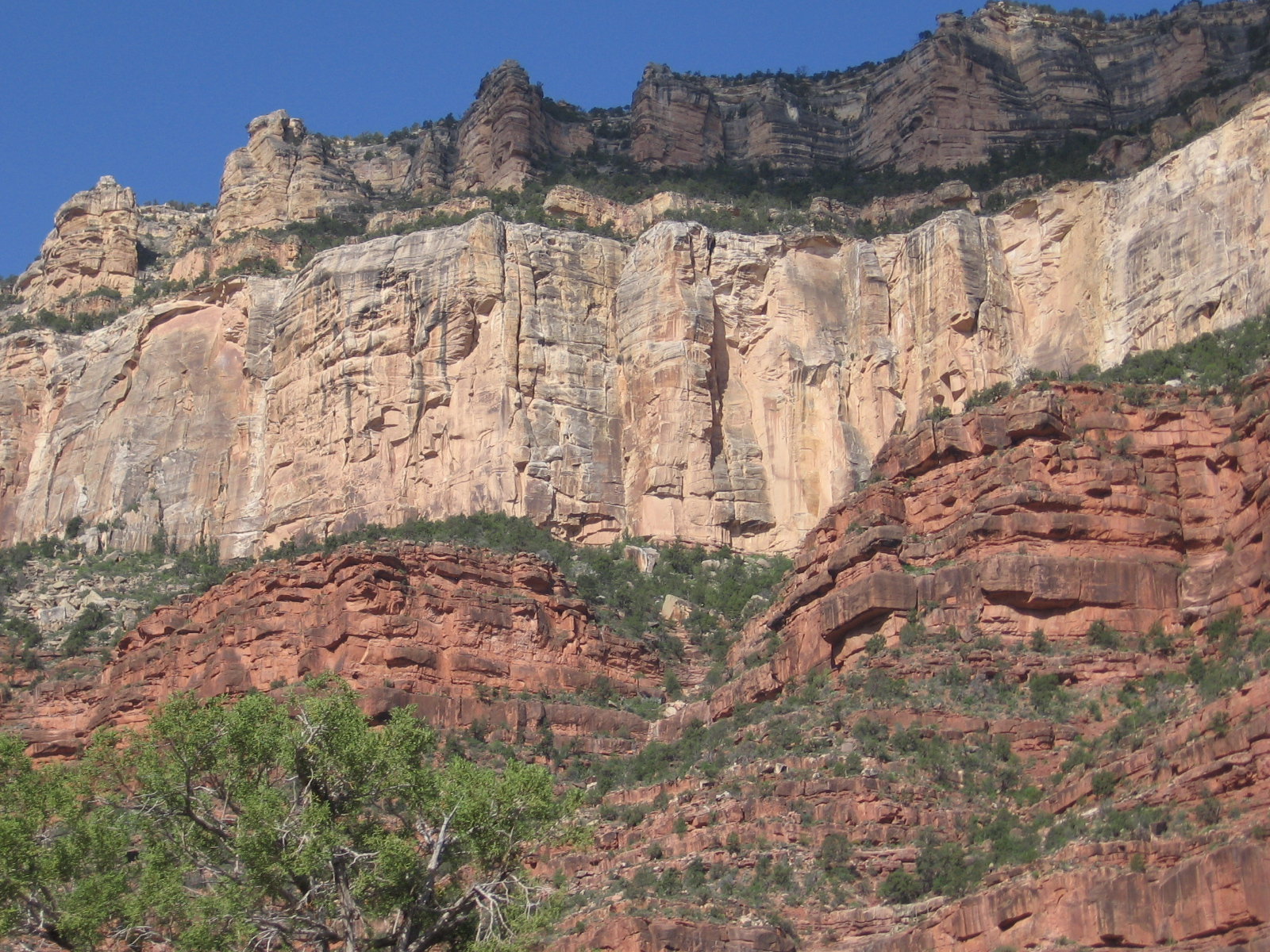 colorful rocks in Grand Canyon